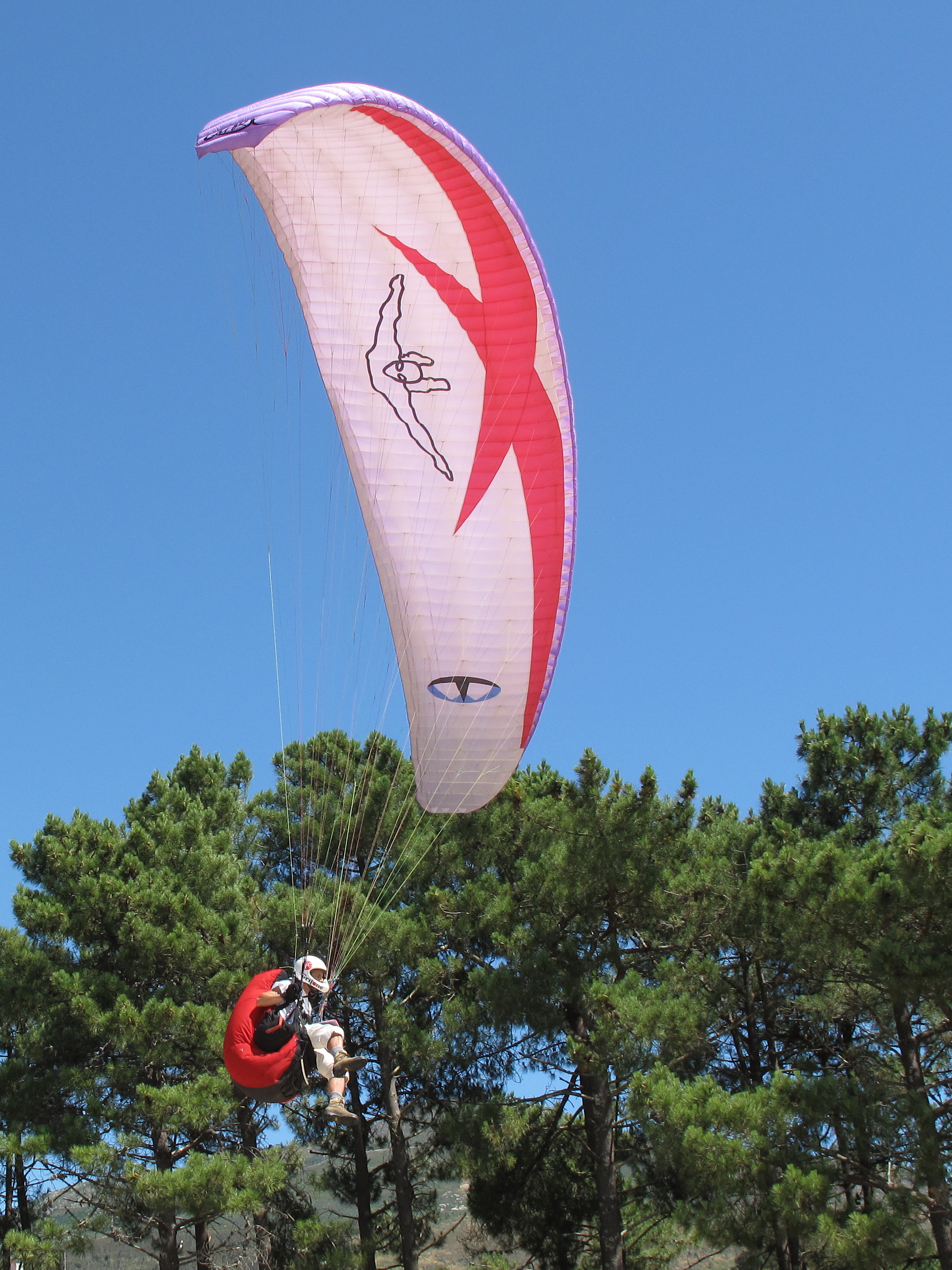 Paraglider: Windtech Quarx